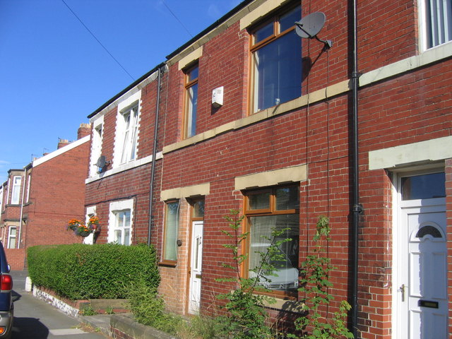 Flat Conversion On Gosforth Terrace. This was formerly an upstairs and downstairs Tyneside terraced house until the owner knocked them into one.